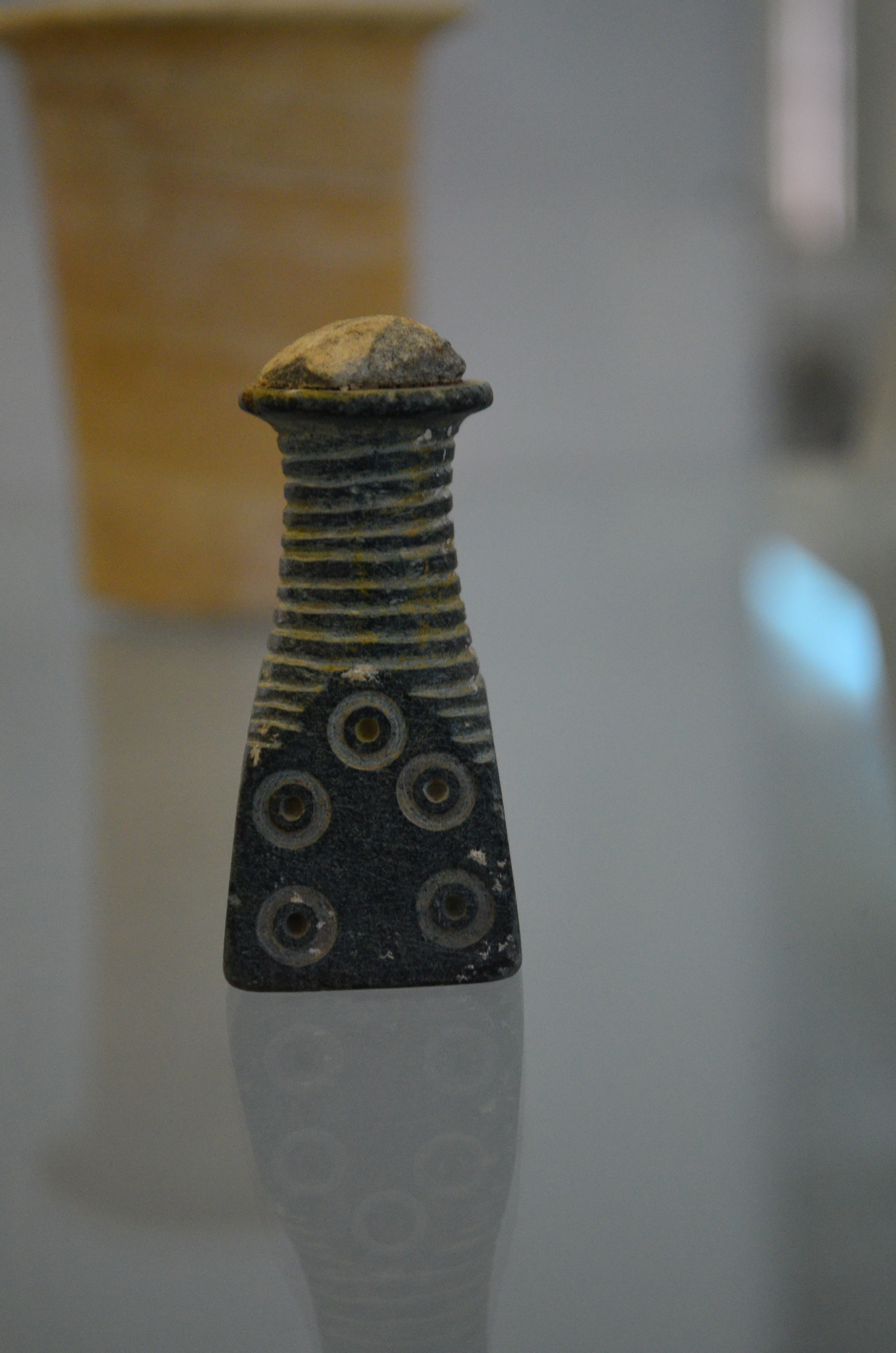 National Museum of Iran National Museum of Iran Native name